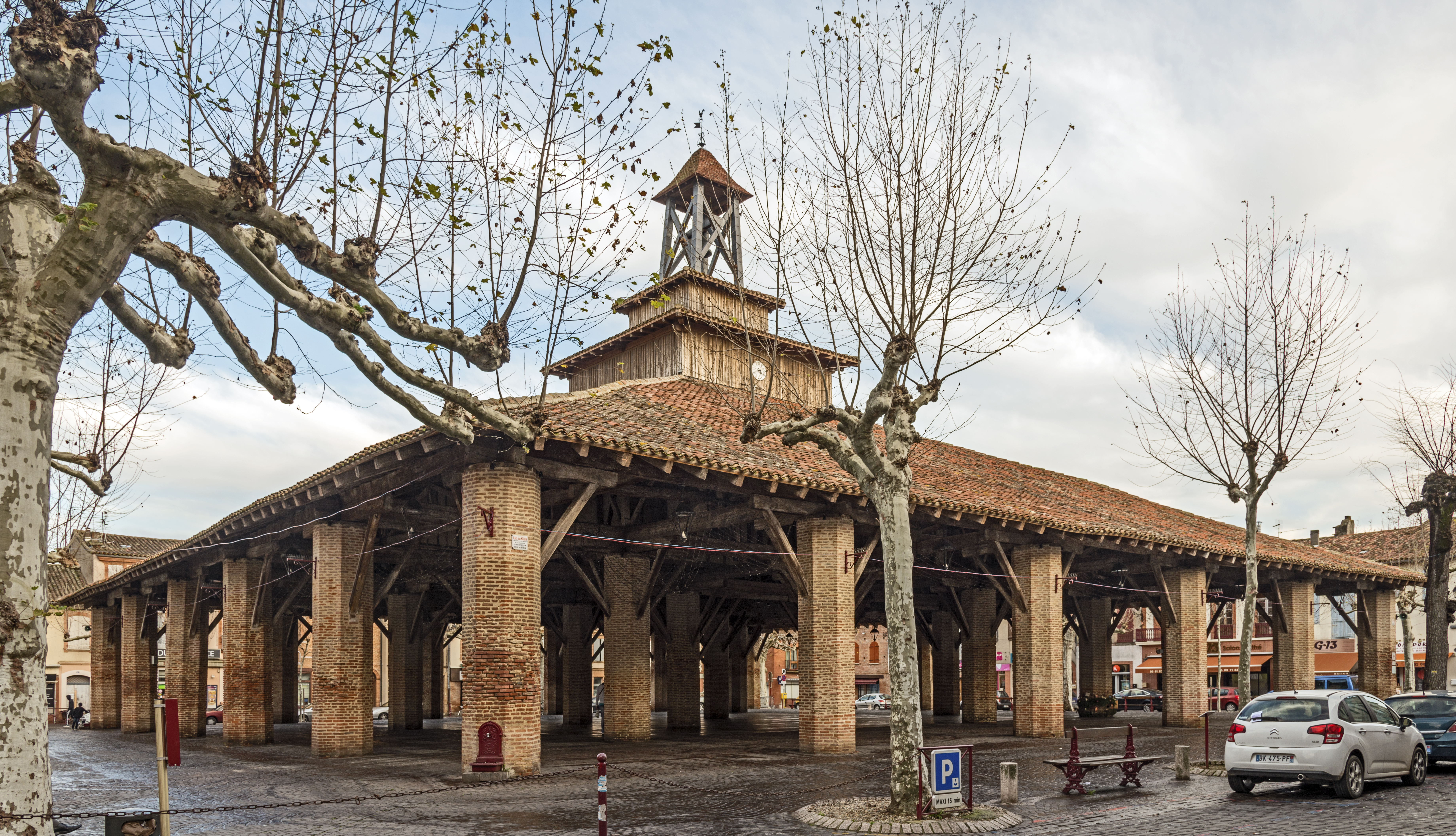 Grenade, Haute-Garonne, France. The covered markett "Jean Moulin". XIV century.